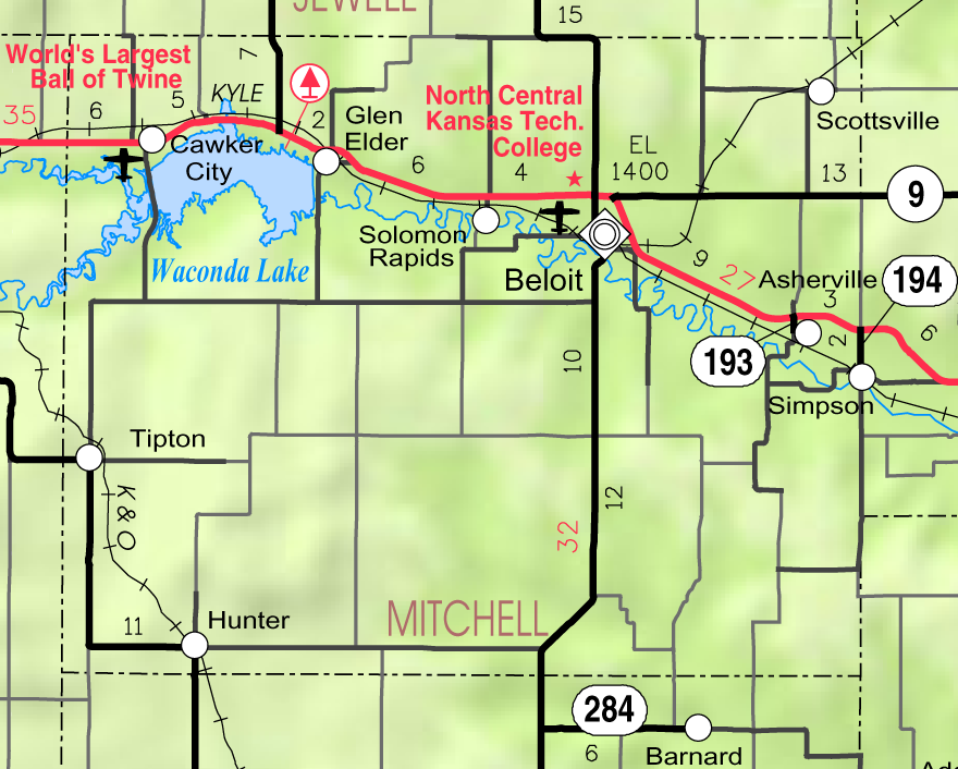 This map of Mitchell County, Kansas, USA, is copied at a resolution of 300 pixels/inch from the original PDF file.